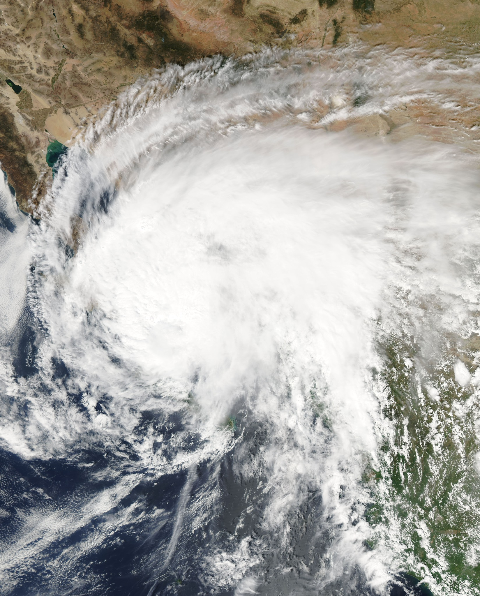 Hurricane Marty after peak intensity on September 21